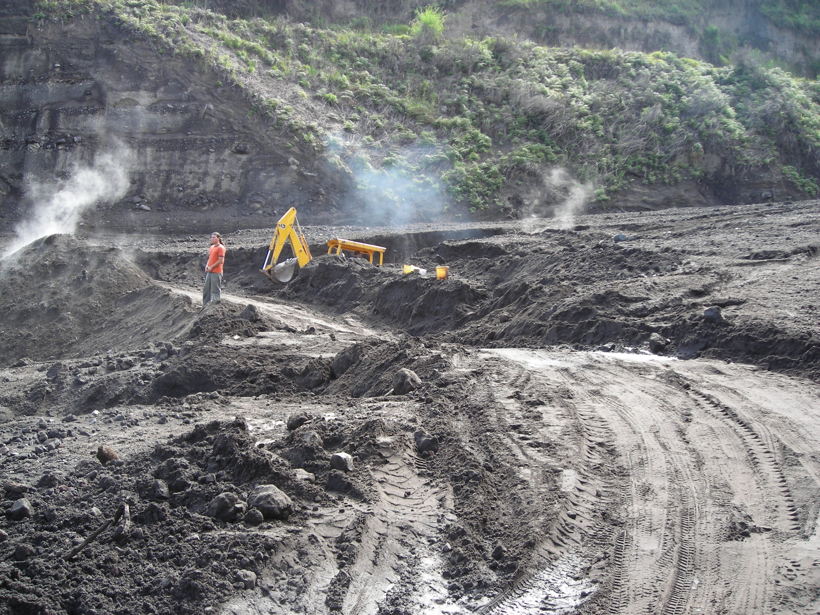 Workers reparing road near Baños after vulcanic flow. Tungurahua, Ecuador